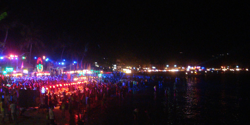 Full Moon Party March 2015, view over Haad Rin Suinrise Beach, Koh Phangan, Thailand.